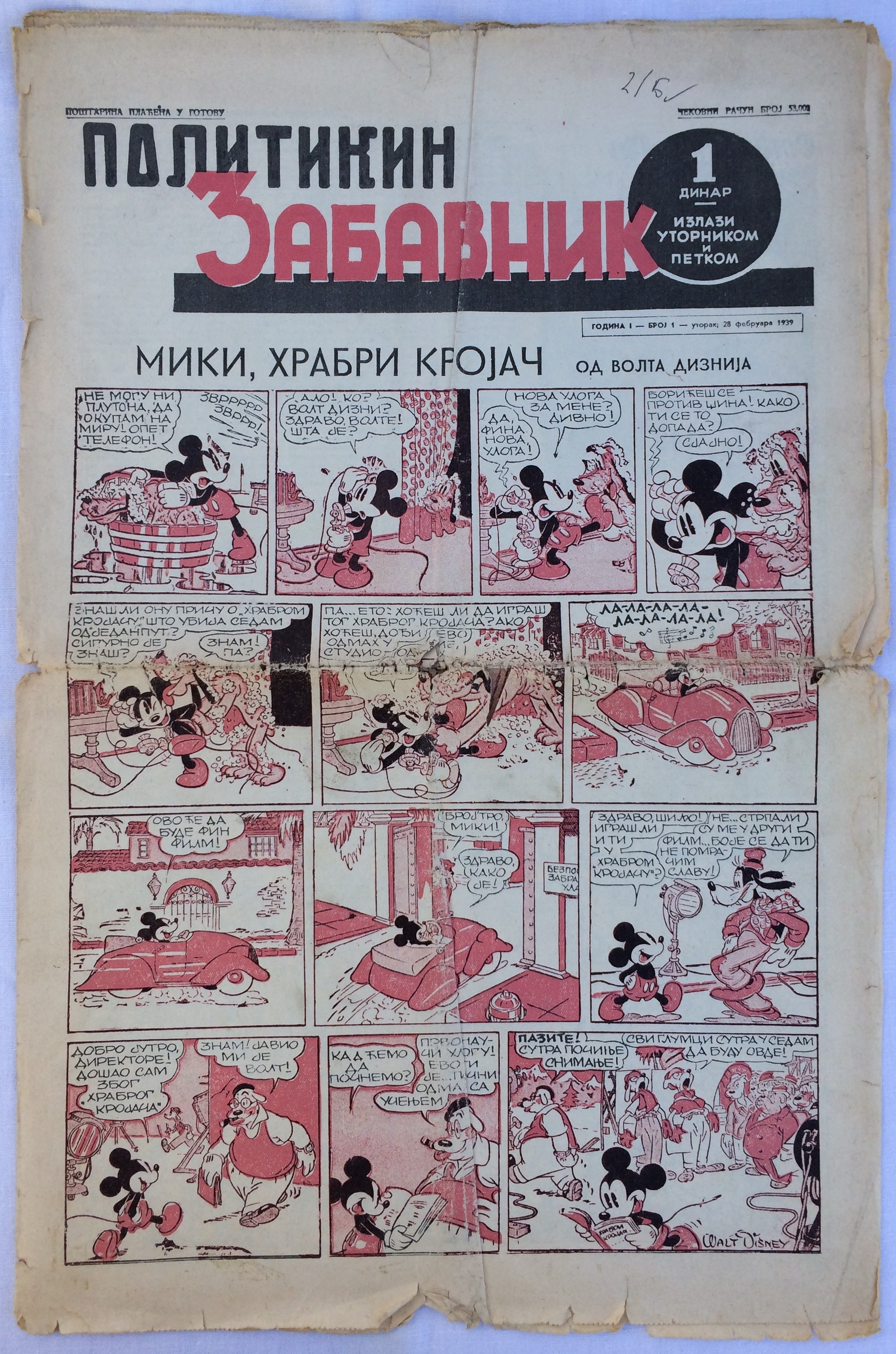 First edition cover page of "Politikin zabavnik" from 1939. It can be found in the Society for Culture, Art and International Cooperation Adligat in Belgrade, Serbia. Српски (ћирилица): Насловна страна првог издања "Политикиног забавника" из 1939. године. Налази се у Удружењу за уметност, културу и међународну сарадњу „Адлигат” у Београду.